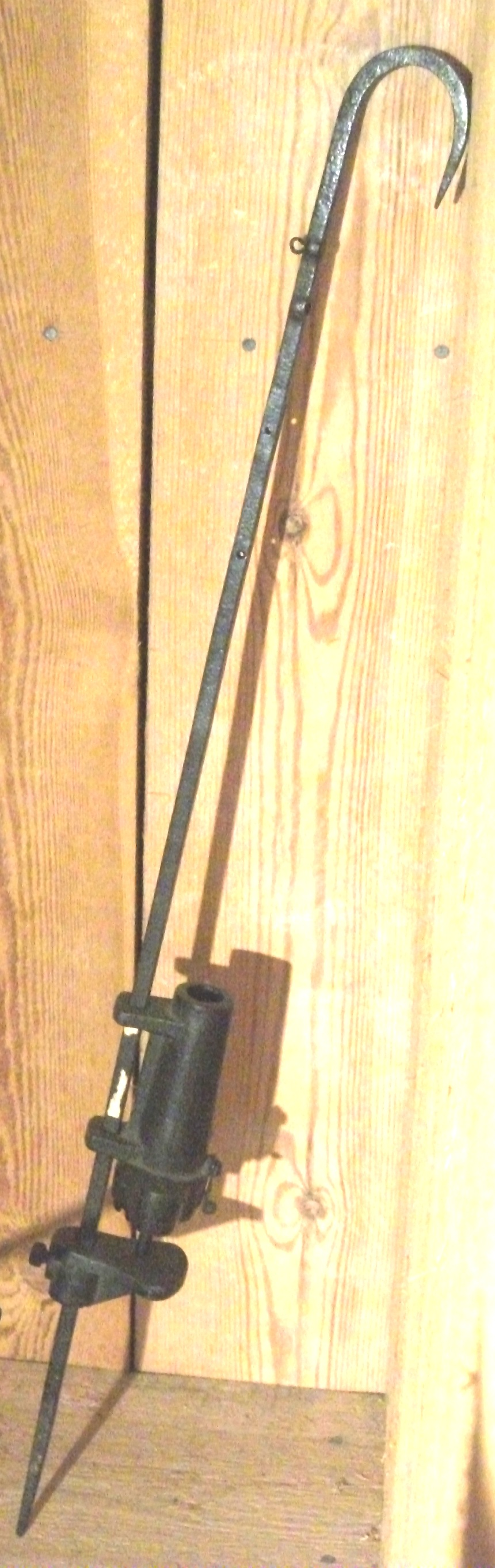 A nineteenth century alarm gun, a non lethal version of the spring gun, intended to scare poachers by firing a blank up into the air, rather than deliberately harm these people as spring guns were designed to do. On display in Bedford Museum.